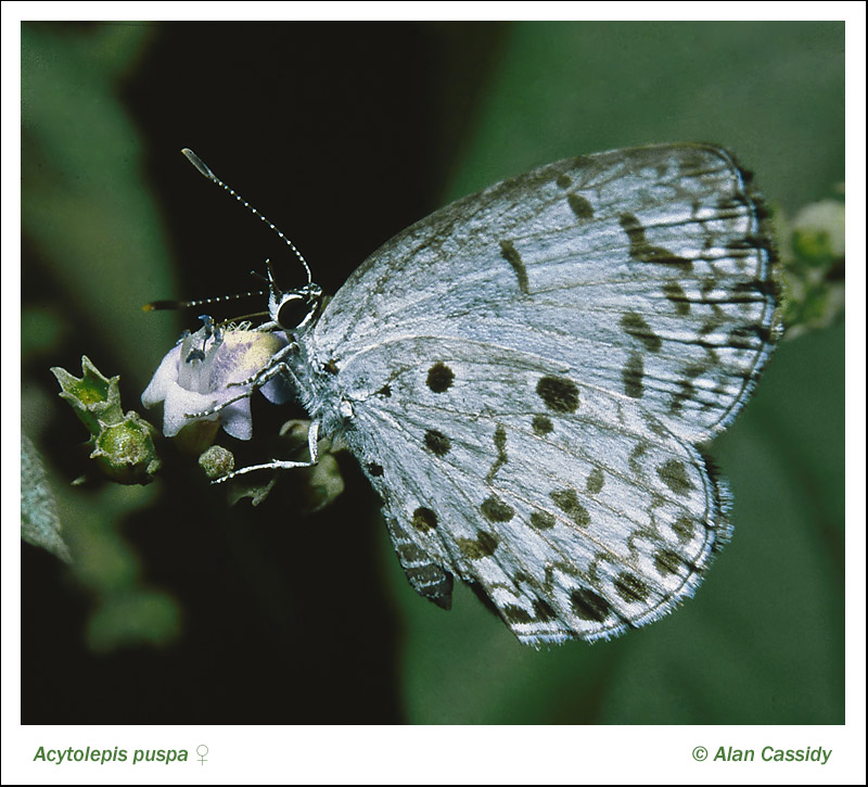 Acytolepis puspa in Brunei